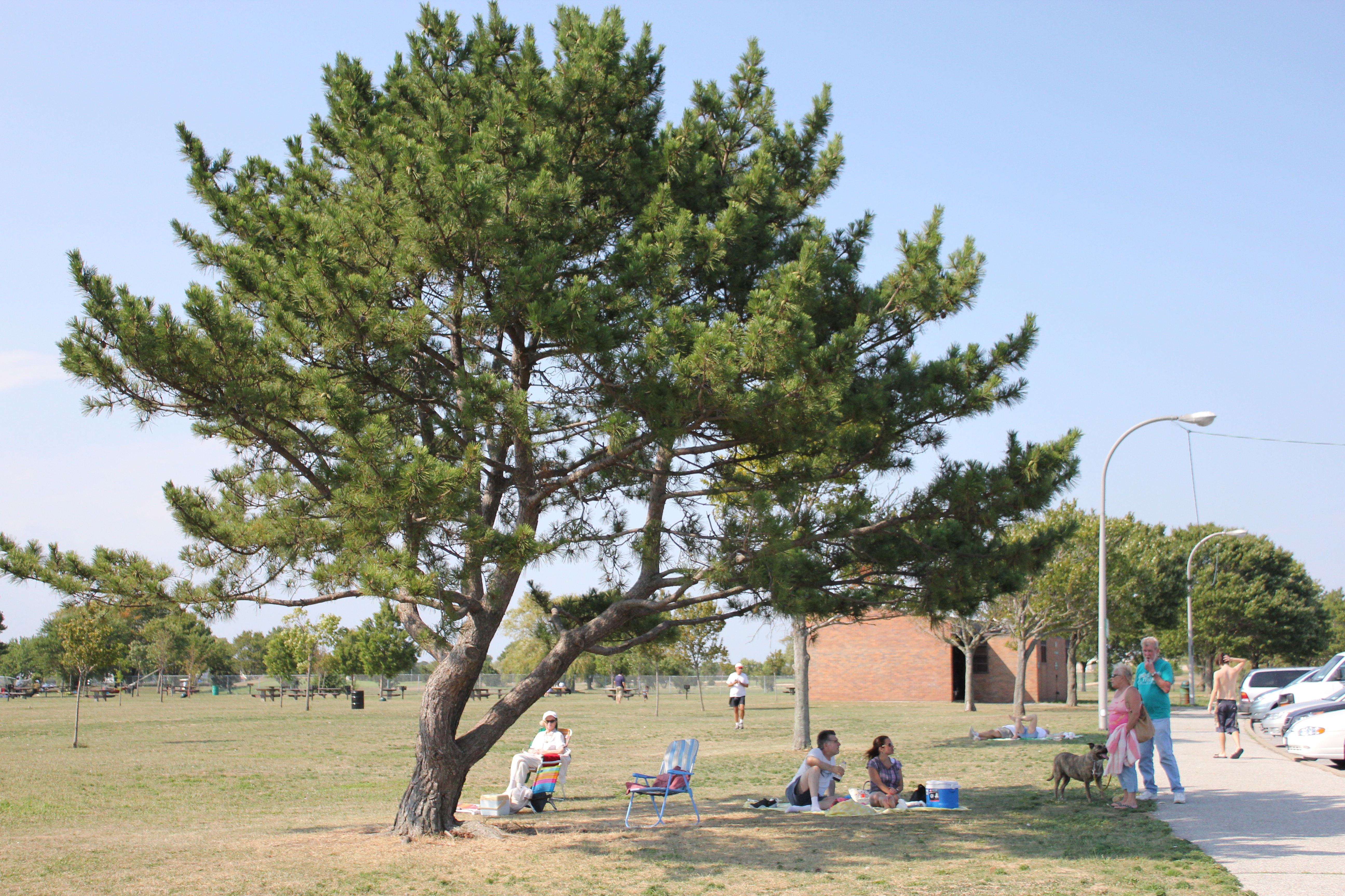 A tree in Bay Park